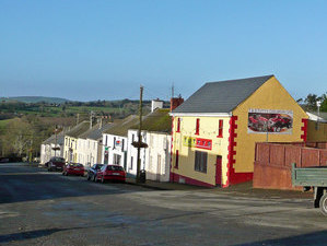 The Coolgreany Inn At the centre of the village. A "landscaper's" truck has been cropped out of the image.